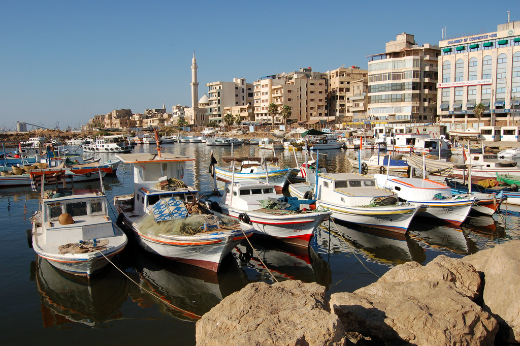 Boats at Tartus boats harbor